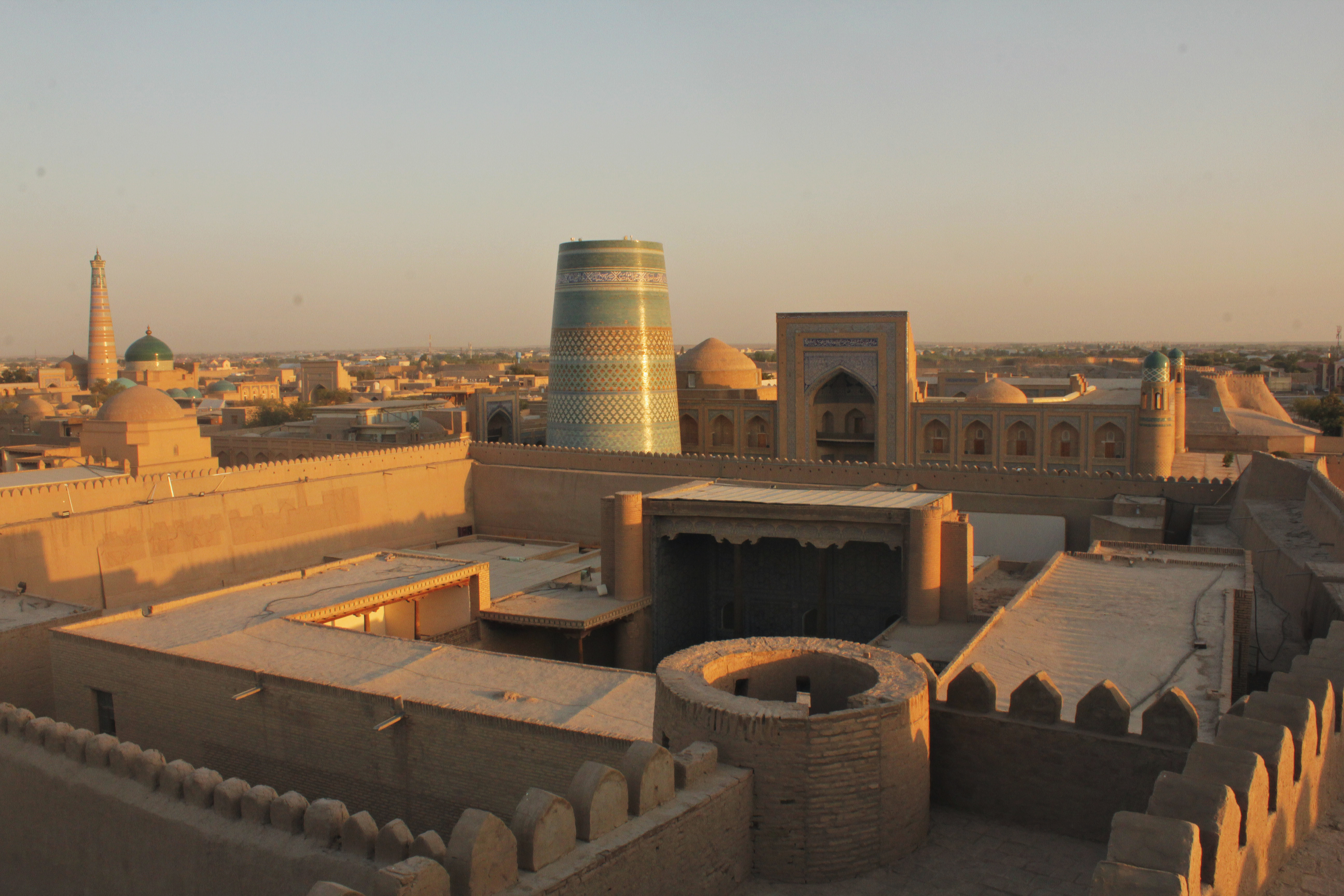 Cityscape of Itchan Kala in Khiva, Uzbekistan